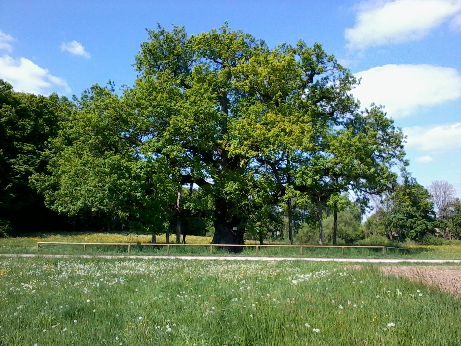 The "Large Oak" near Gottwollshausen, Baden-Wuerttemberg, Germany. – Stem diameter: 7 metres, Age: 400–500 years